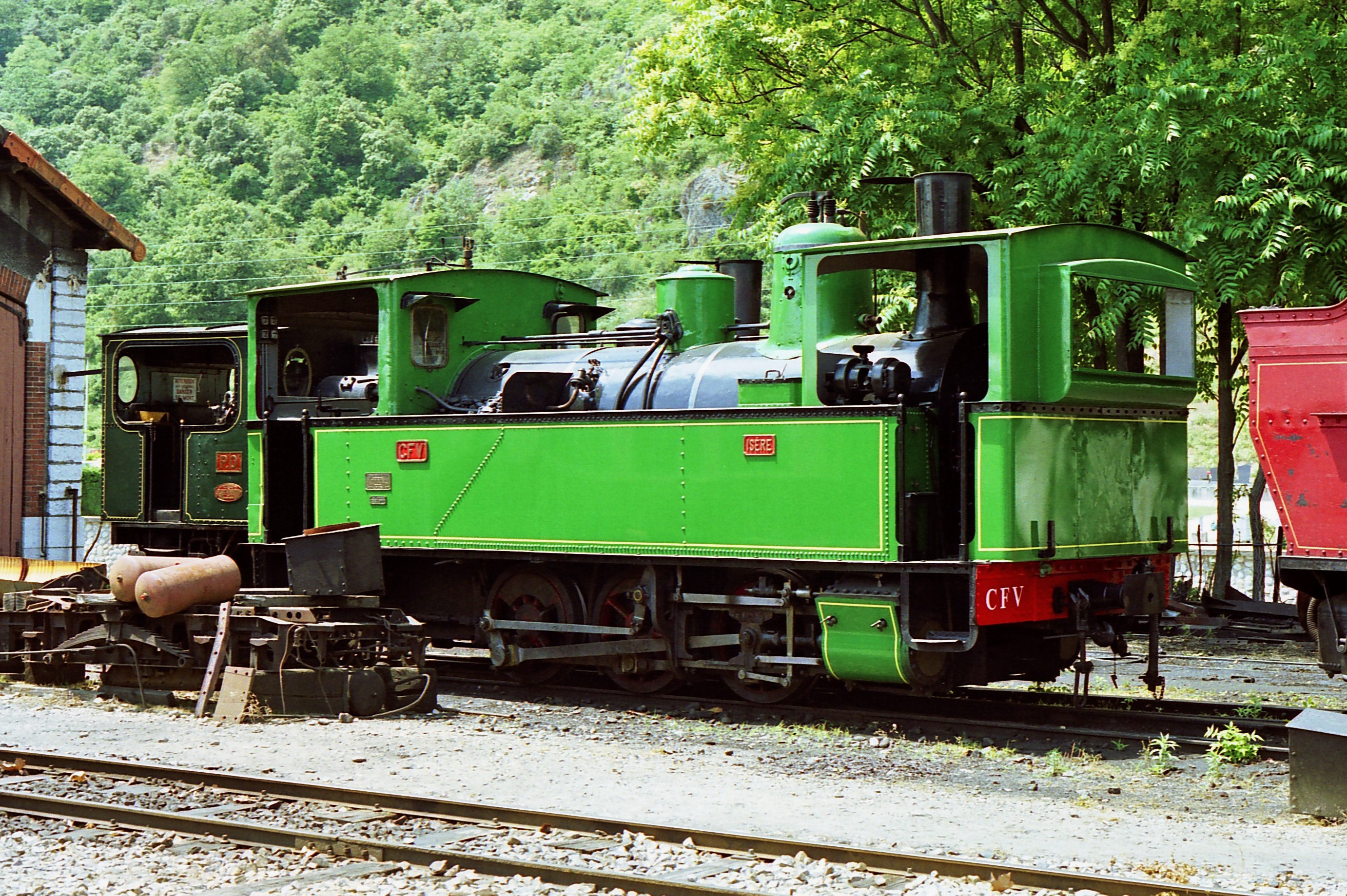 Bicabin steam locomotive Pinguely 31 "Isère" of the Chemin de Fer du Vivarais in Tournon.